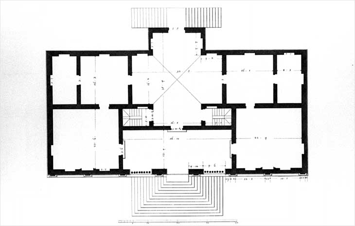 Villa Gazzotti in Bertesina (Vicenza), designed by Andrea Palladio. Drawing from Ottavio Bertotti Scamozzi, 1778.